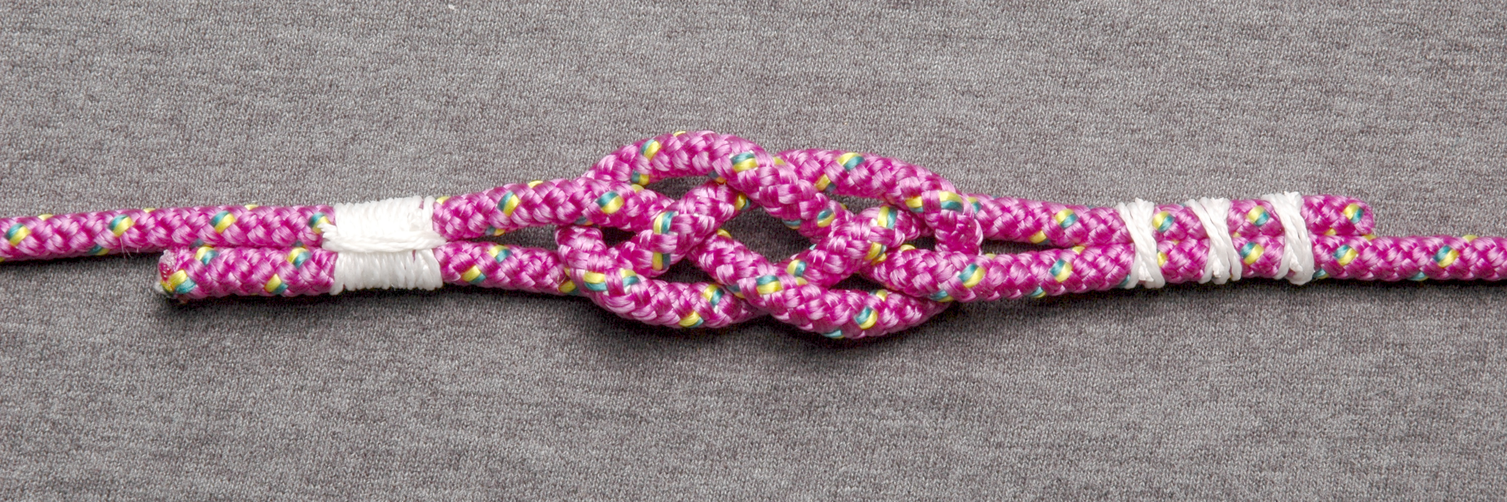 Seized Carrick bend (ABOK #1439), Round seizing on left, multiple tight Double constrictor knots on right.